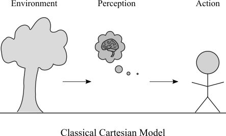 A model representing the classical Cartesian computational-representational understanding of mind